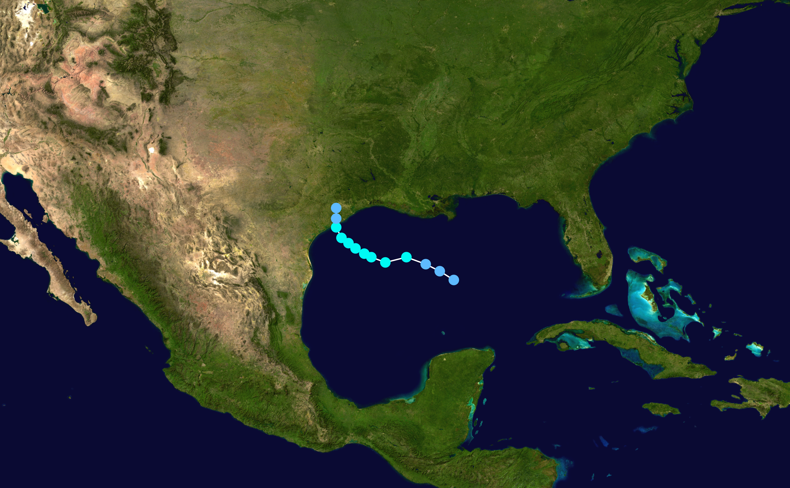 Track map of Tropical Storm Elena of the 1979 Atlantic hurricane season. The points show the location of the storm at 6-hour intervals. The colour represents the storm's maximum sustained wind speeds as classified in the Saffir–Simpson scale (see below), and the shape of the data points represent the nature of the storm, according to the legend below. Saffir–Simpson scale Tropical depression≤38 mph≤62 km/h Category 3111–129 mph178–208 km/h Tropical storm39–73 mph63–118 km/h Category 4130–156 mph209–251 km/h Category 174–95 mph119–153 km/h Category 5≥157 mph≥252 km/h Category 296–110 mph154–177 km/h Unknown Storm type Tropical cyclone Subtropical cyclone Extratropical cyclone / Remnant low / Tropical disturbance / Monsoon depression